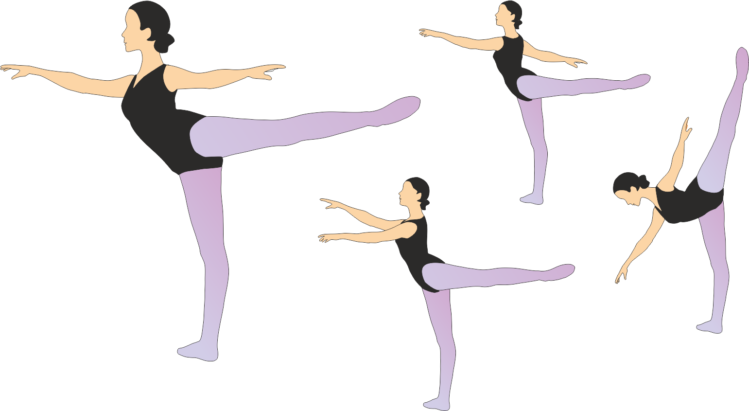 Four different arabesques